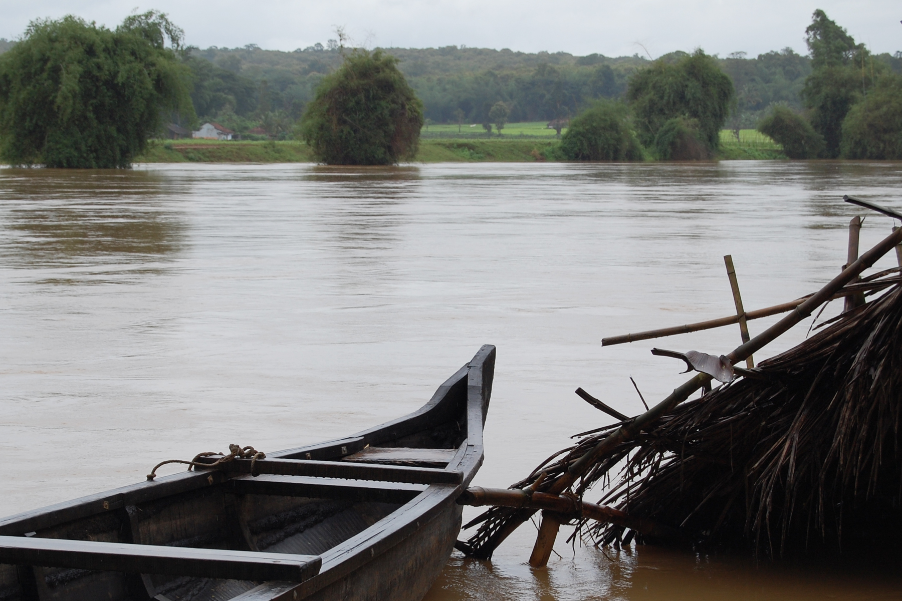 A view of Kabani River from Kabanigiri, Kerala